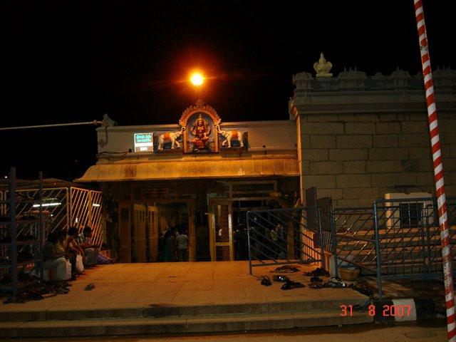 Sri VarahaSwamy Temple in Tirumala